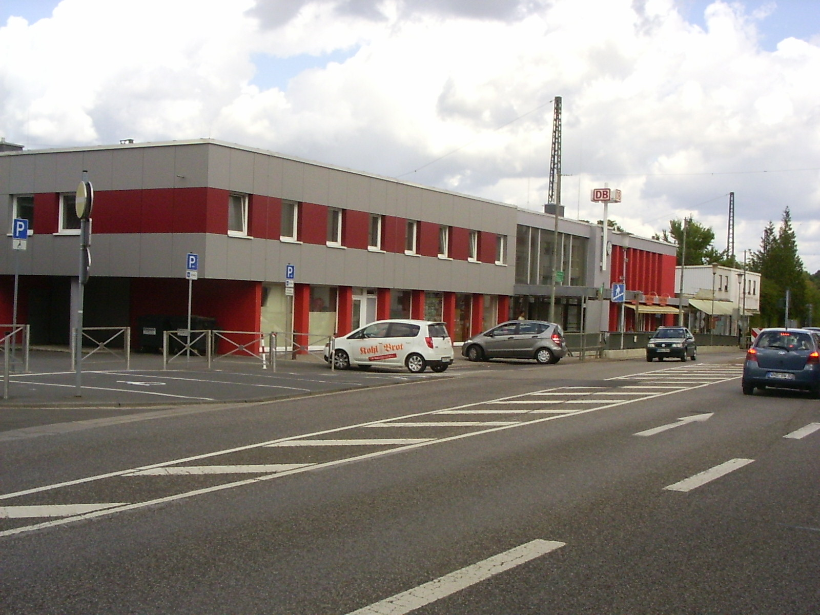 Sankt Wendel train station, Saarland